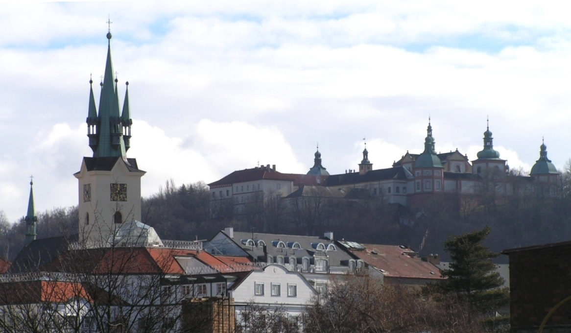 View of Svatá Hora and old town, Příbram.